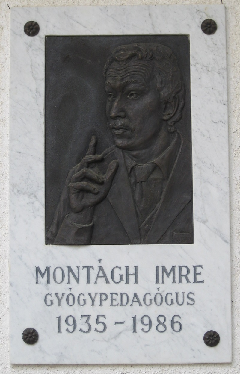 Imre Montágh commemorative plaque in Gödöllő, Dobó Katica Street No 2. Sculptor: Zoltán Zsolt Varga.